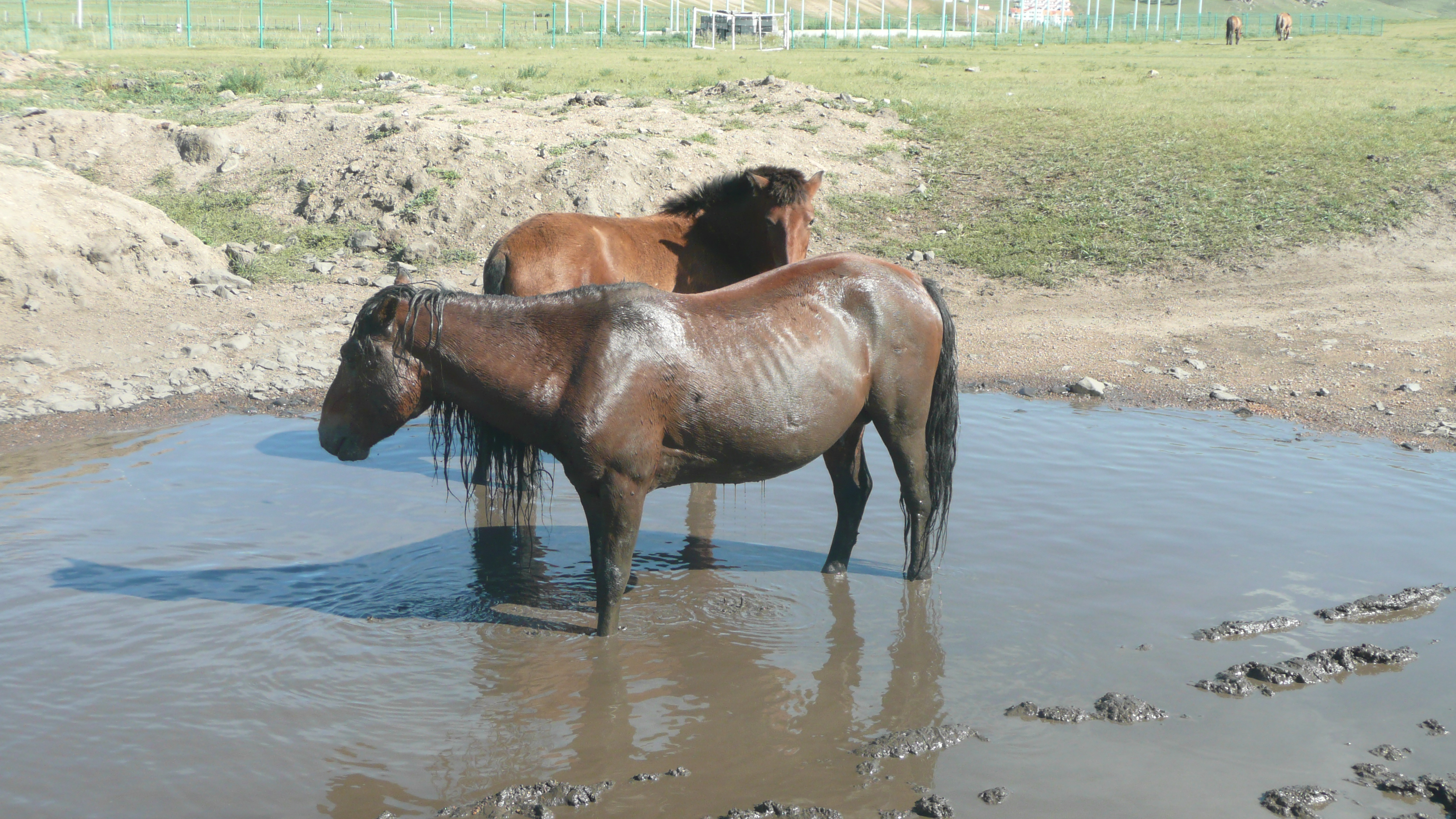 Mongolian horses